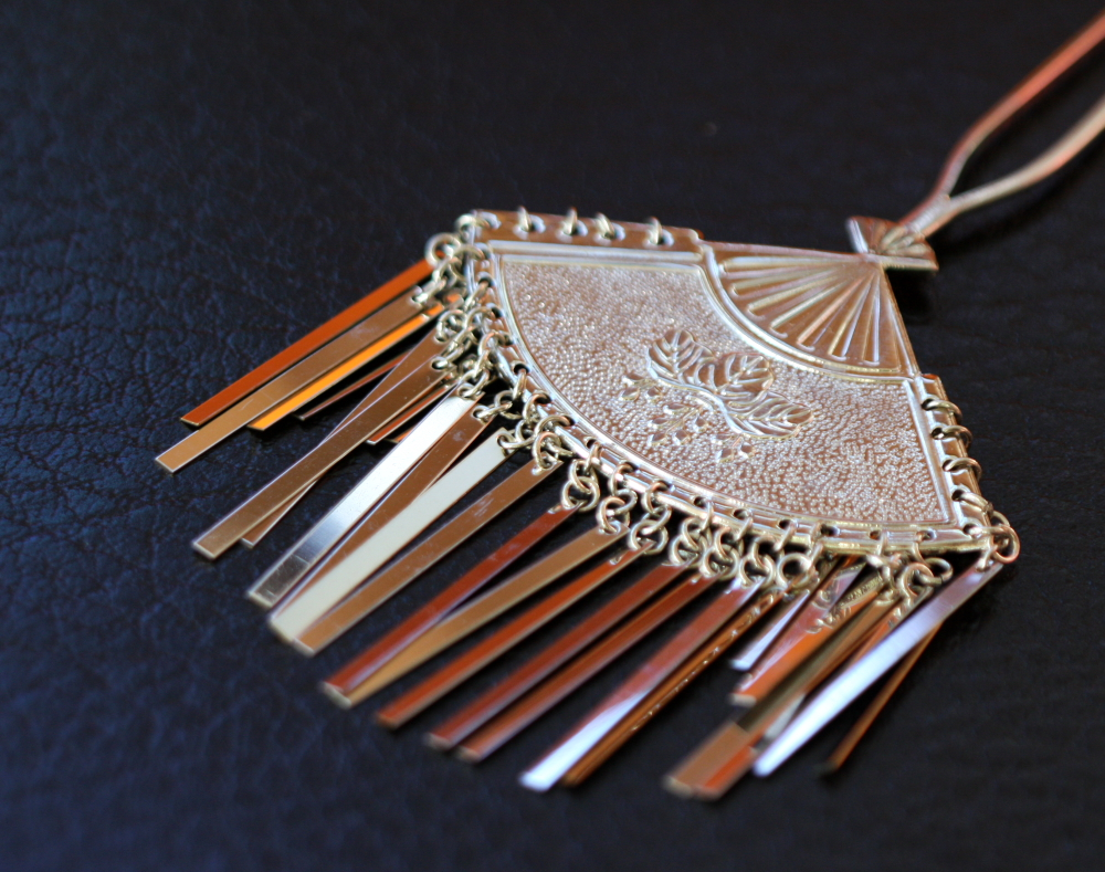 An aluminum ougi-bira. Worn by maiko and other geisha apprentices.